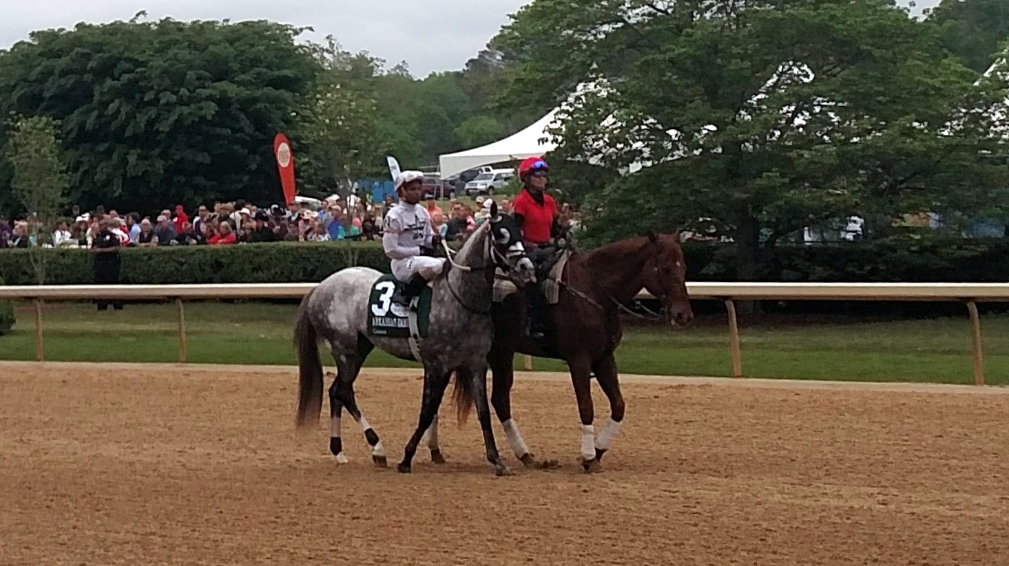 Horse #3 Creator in the post parade prior to the 2016 Arkansas Derby